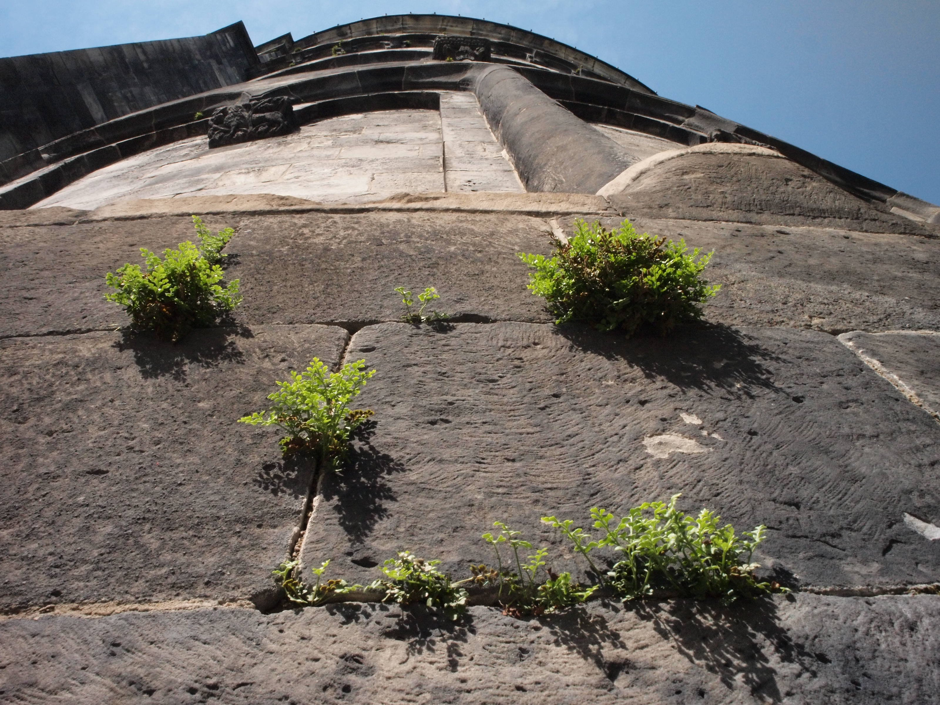 Yesterday I got the idea that I should do some street botany, rather than street photography. I.e., I should approach plant life in public spaces with the same esthetic paradigm I would use when doing street photography. Hope you like it. Street photography is usually using a very large depth of field and the background is hence in focus and is more often than not a part of the overall composition. This aspect makes composition is extremely important component in Street Photography. part 1 part 2 part 3 part 4